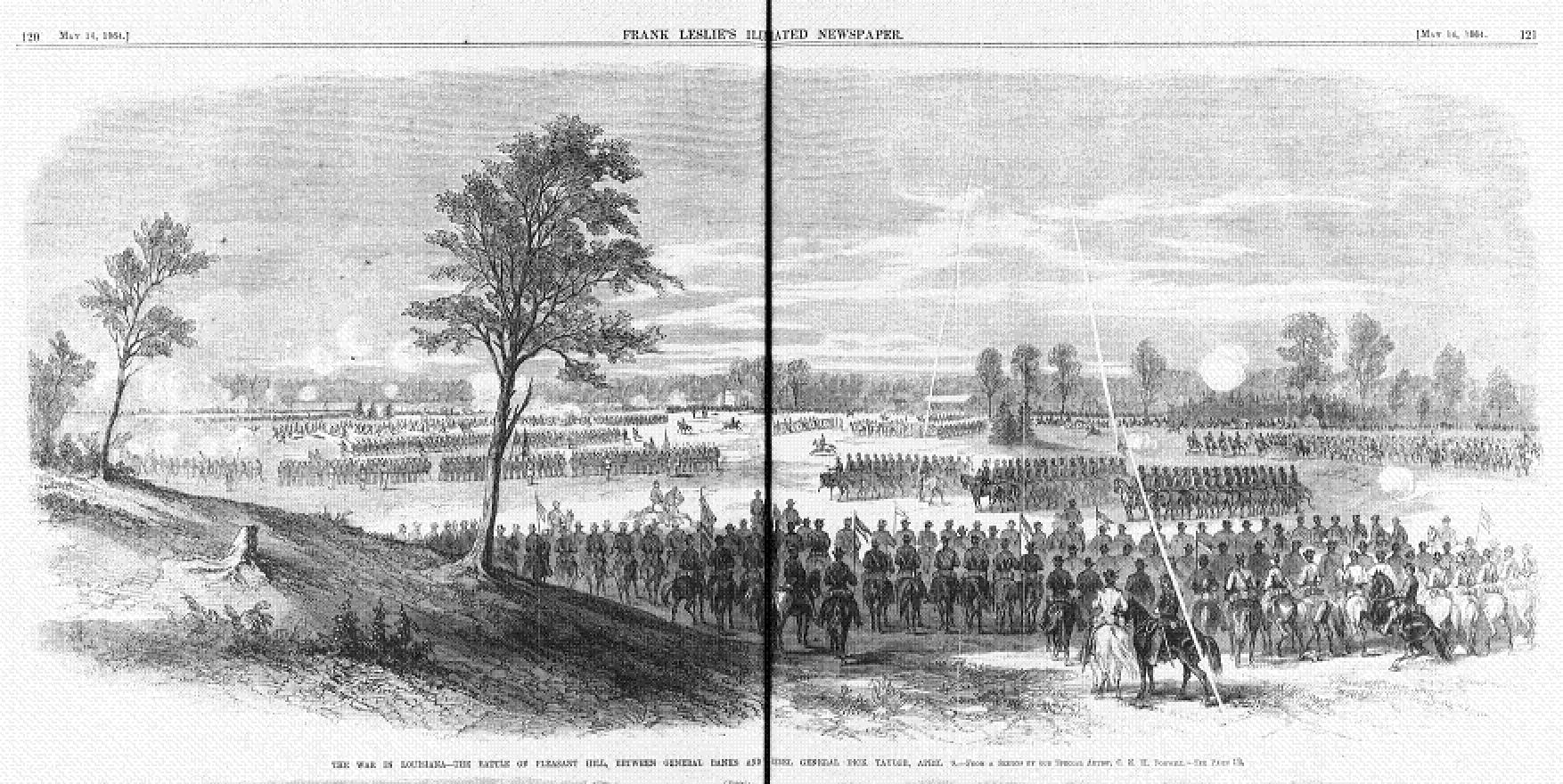 Battle of Pleasant Hill, 9 April 1864, by Charles E. H. Bonwell (or Bonwill), as illustrated in Frank Leslie's illustrated newspaper (Frank Leslie's Weekly), 14 May 1864, pp. 120-121. Image cropped from: The Library of Congress Website (Digital Collections) - CALL NUMBER: Illus. in AP2.L52 Case Y [P&P.]. Charles E. H. Bonwell, the Artist, was born c.1836. Frank Leslie died 1880. Other description: The war in Louisiana--the Battle of Pleasant Hill, between General Banks and the rebel General Dick Taylor, April 9 / from a sketch by our special artist, C. E. H. Bonwell. RIGHTS INFORMATION: No known restrictions on publication. MEDIUM: 1 print : wood engraving.